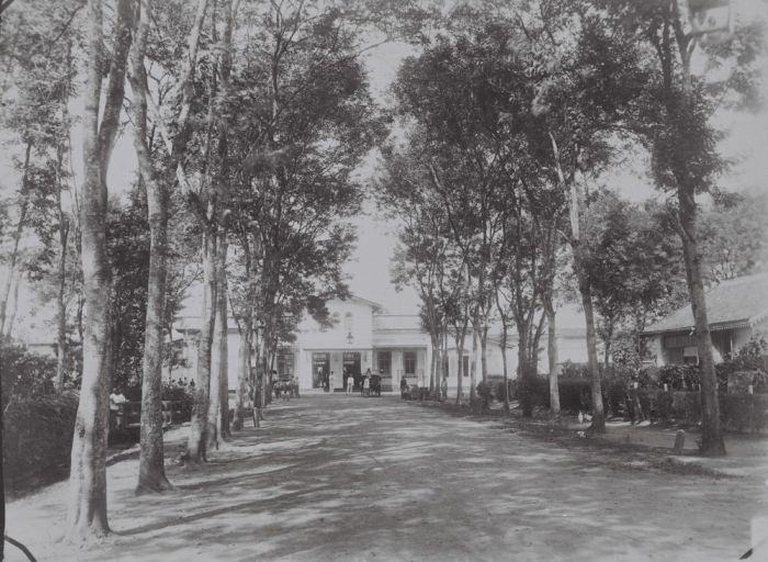 The railway-station in Blitar, Java.